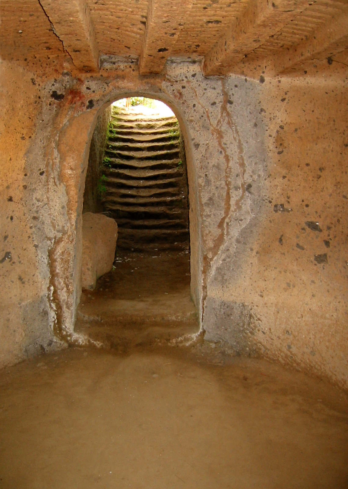 A Burial Chamber in the etruscan necropolis of Banditaccia near Cerveteri in Lazio, Italy.